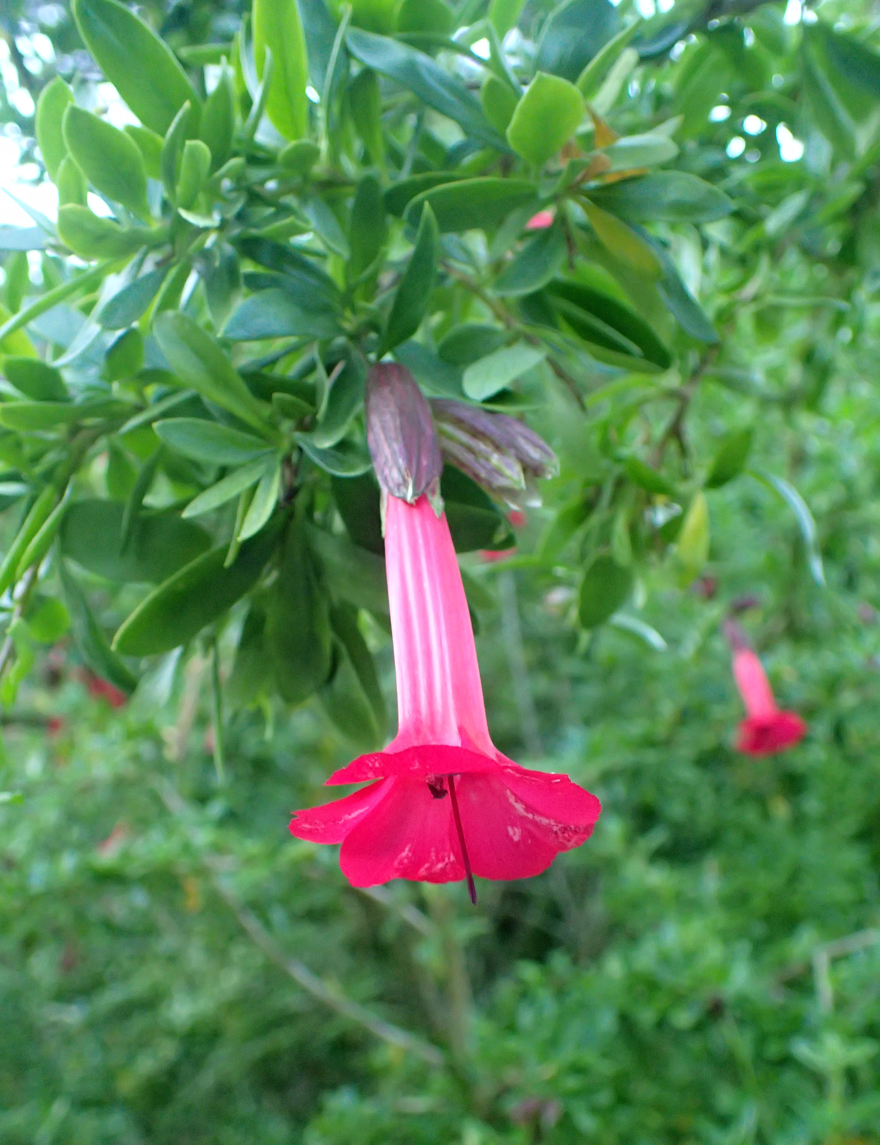 Cantua buxifolia in the San Francisco Botanical Garden